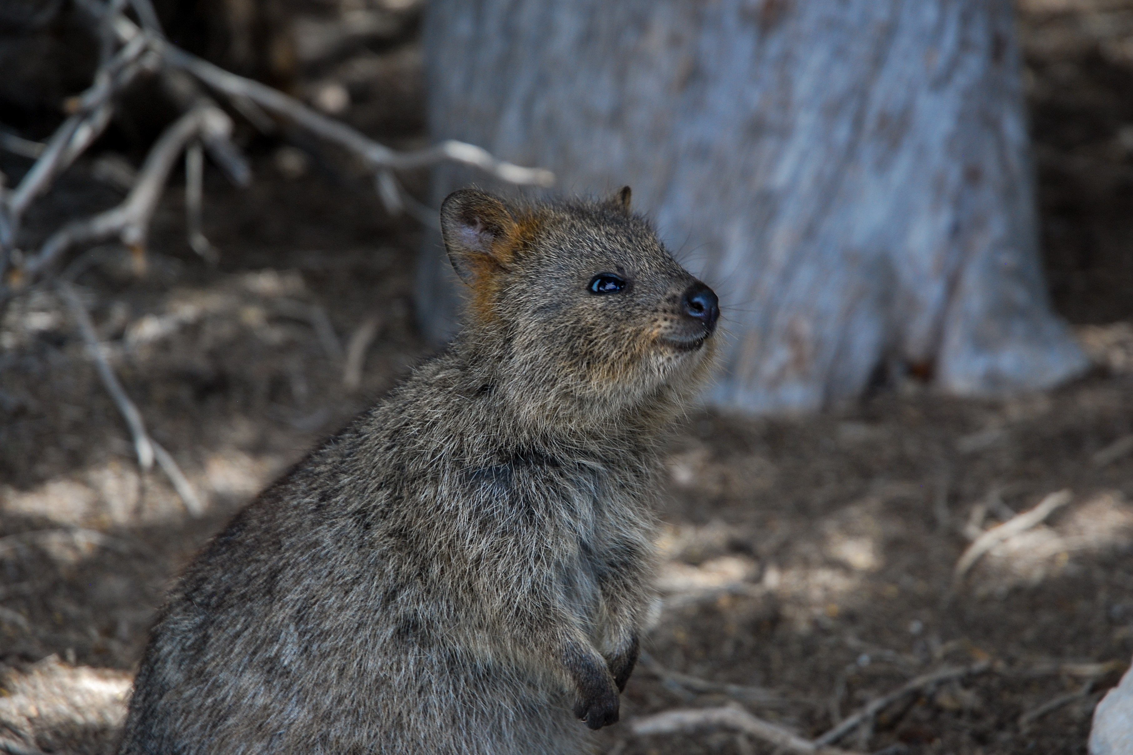 A small marsupial, the quokka, on Rottnest Island, WA, Australia.